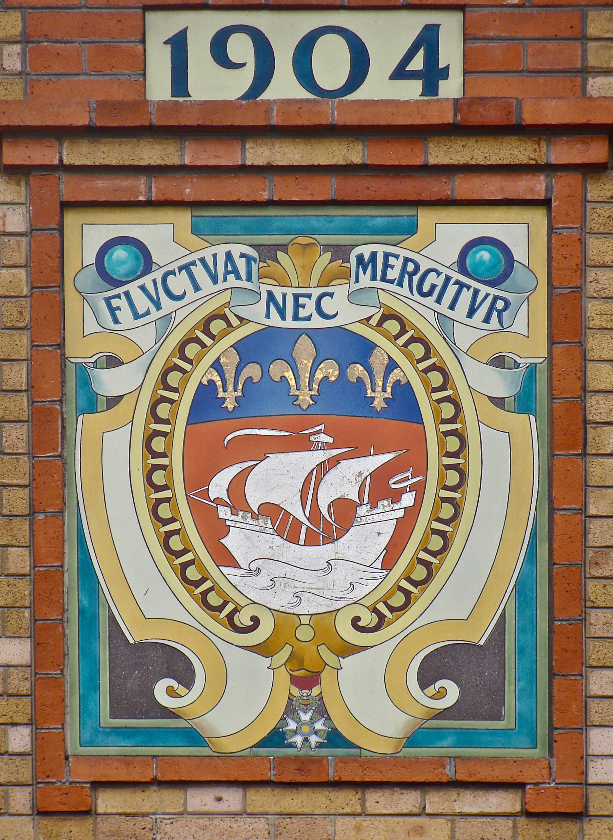 the CoA of Paris, 1904, on the wall of a municipal building (Centre de santé de l'Épée de Bois) in the 5th arrondissement of the city.